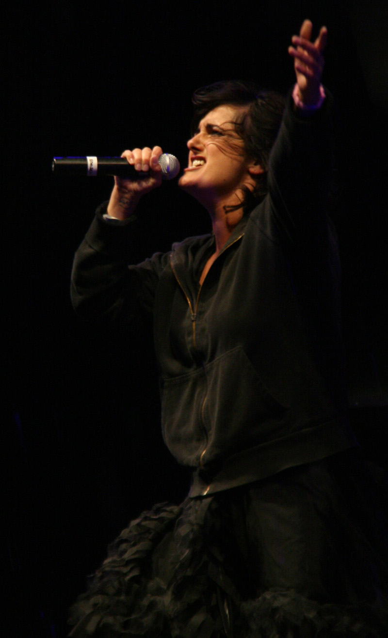 Sian Evans, singer of Kosheen; performance at the Regenbogenparade (gay pride parade) 2008 in Vienna